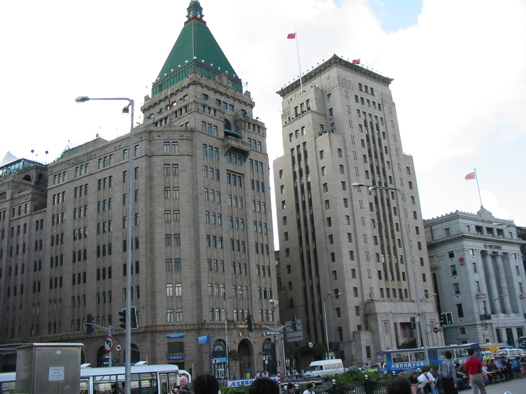 From left to right: The Peace Hotel, Bank of China building, and former Yokohama Species Bank building Taken by User:Ruazn2 in 2002